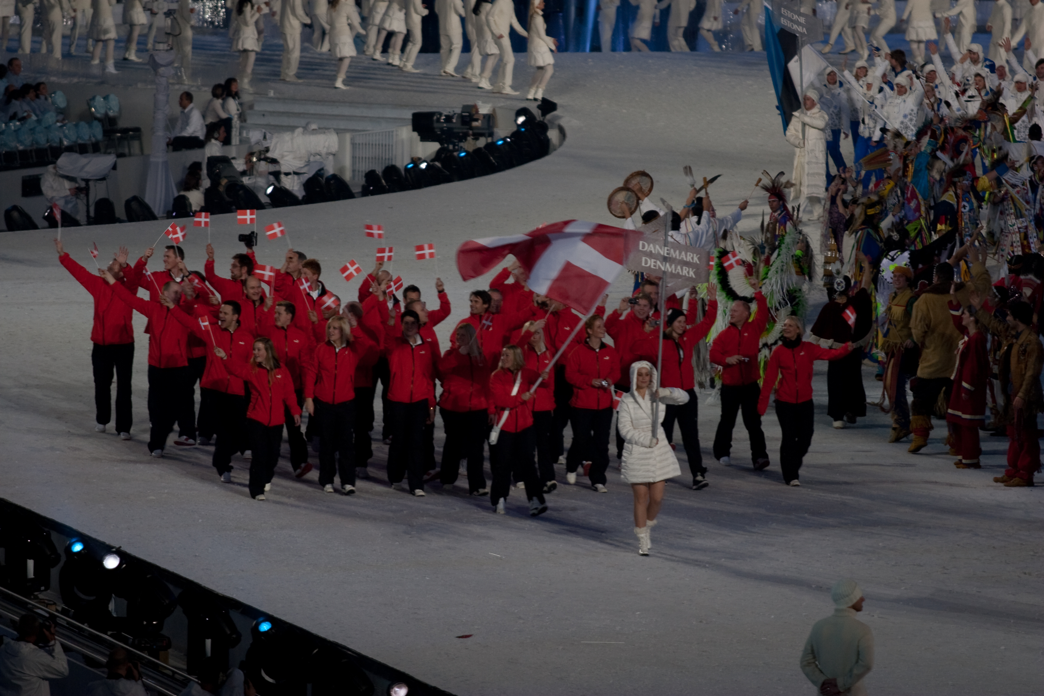 The athletes from Denmark entering the stadium at the opening ceremonies of the 2010 Winter Olympics